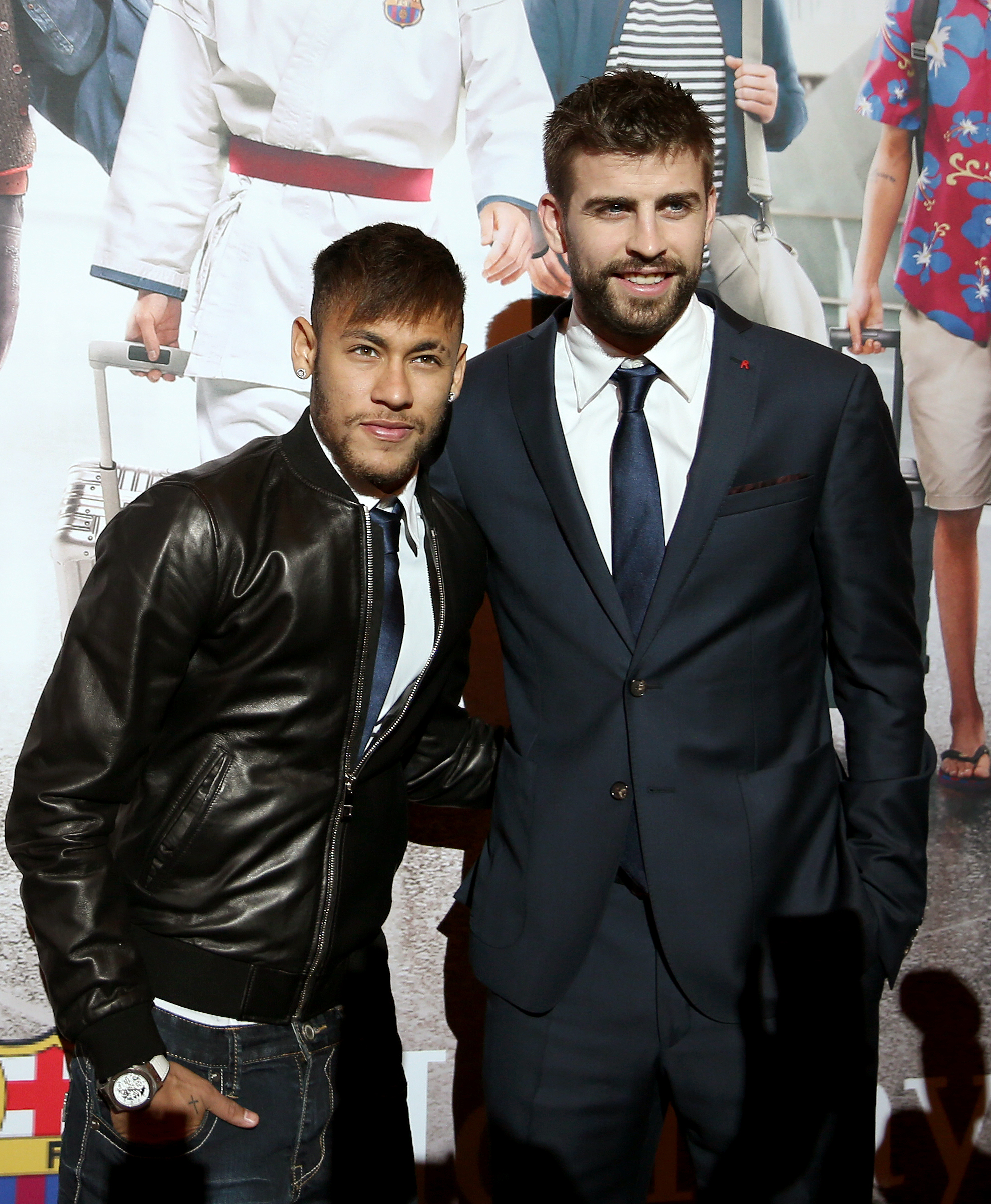 FC Barcelona's Neymar and Gerard Pique during a function in Doha